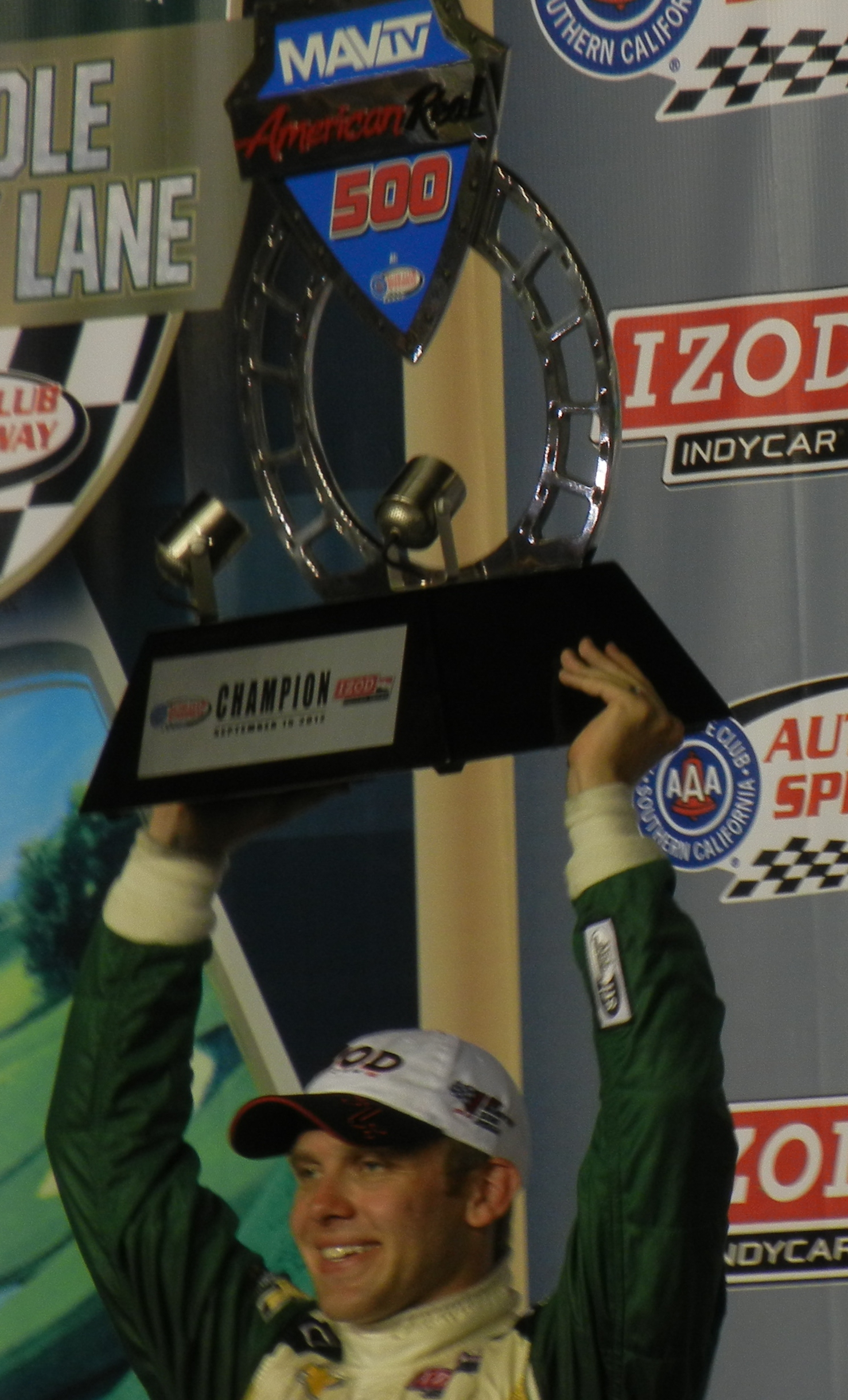 Ed Carpenter, winner of the 2012 MAVTV 500 at the Auto Club Speedway in Fontana, California.